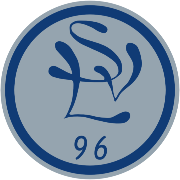 Logo of SpVgg 1896 Liegnitz. German football team.